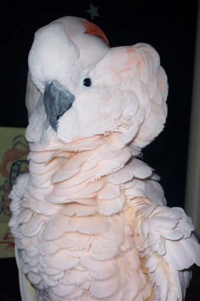 Moluccan cockatoo (Cacatua moluccensis) displaying